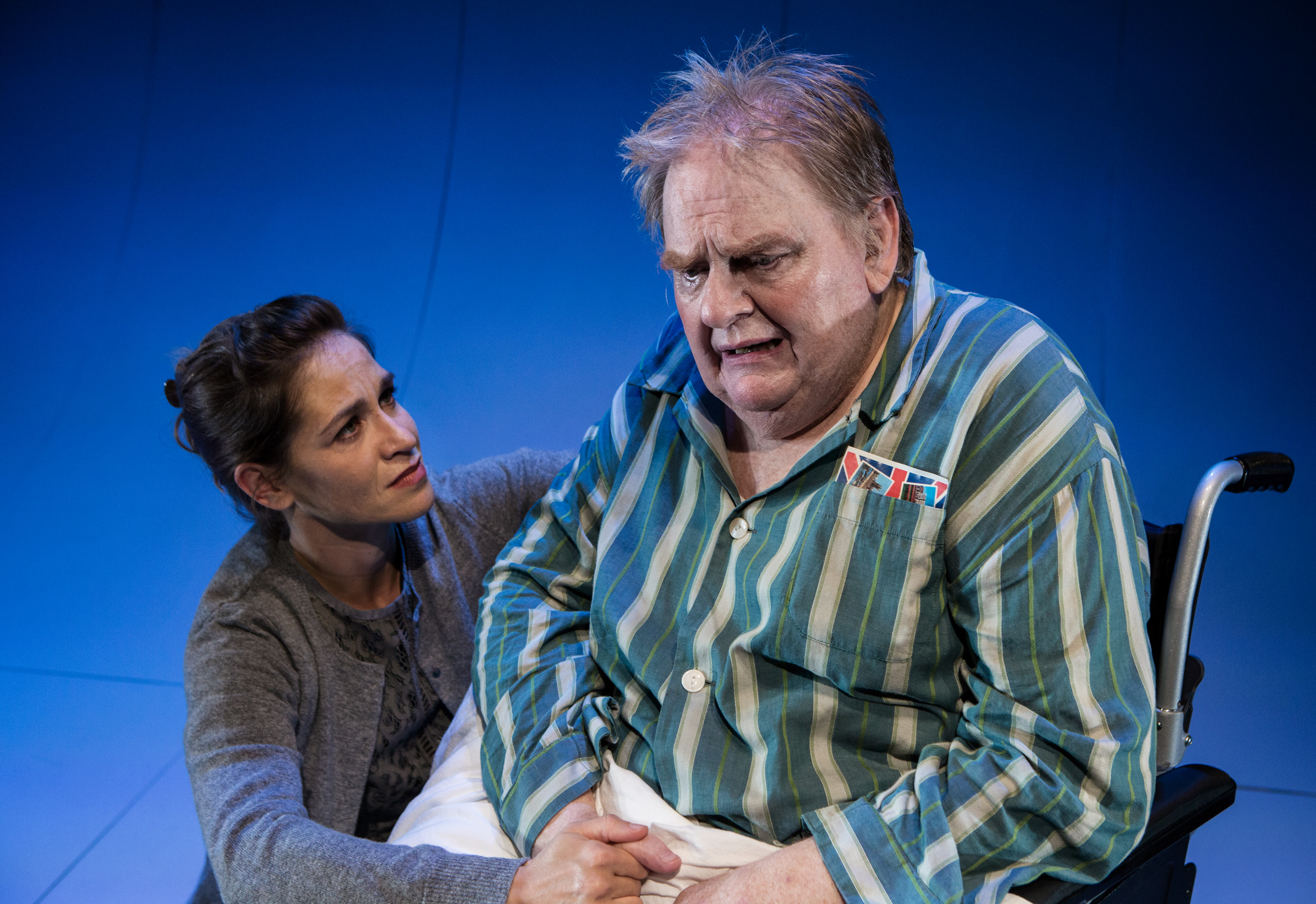 Karin Bang Heinemeier and Ole Thestrup in the Copenhagen theater Folketeatret's production of the play "Min far" (Le Père) by Florian Zeller.